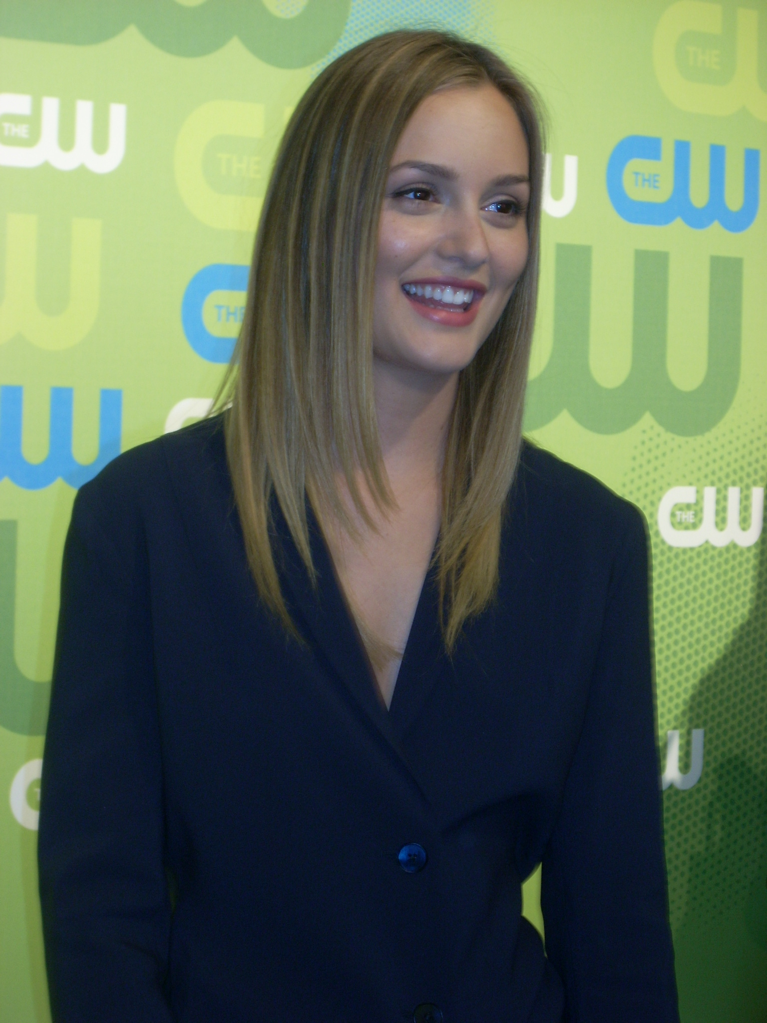 Leighton Meester at the CW Upfront Presentation: Green Carpet Arrivals, Madison Square Garden, New York City - May 21, 2009.